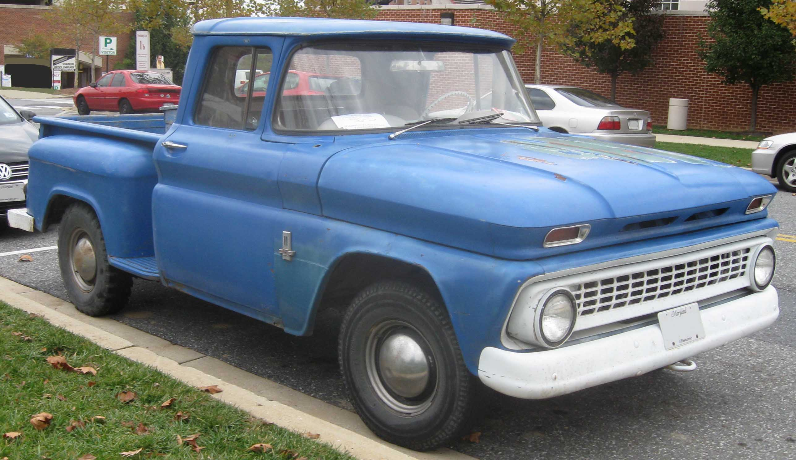 1963 Chevrolet C10 Stepside pickup photographed in College Park, Maryland, USA.